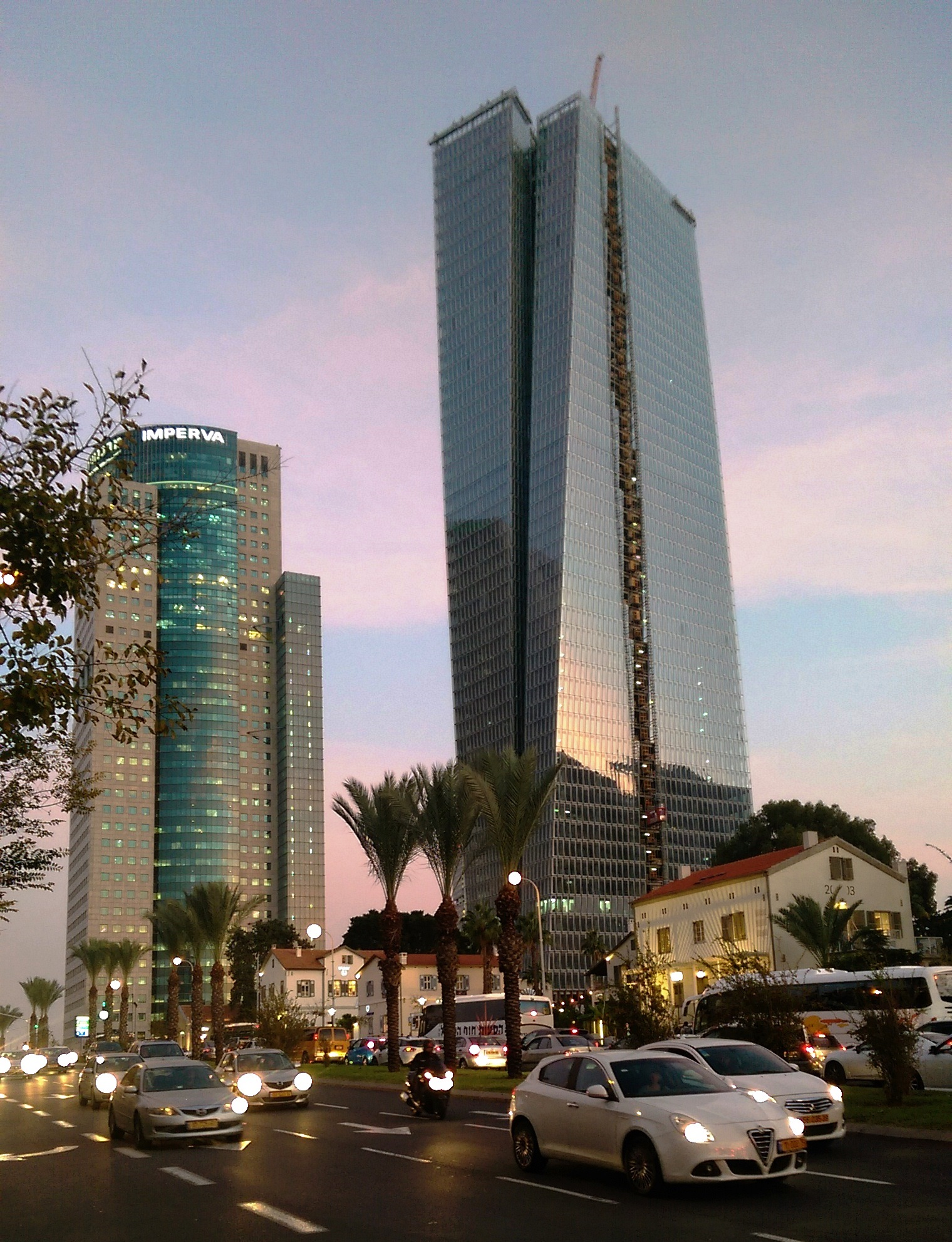 Azrieli Sarona Tower, located in the South Kirya, adjacent to Kirya Tower and the Sarona Compound in Tel Aviv